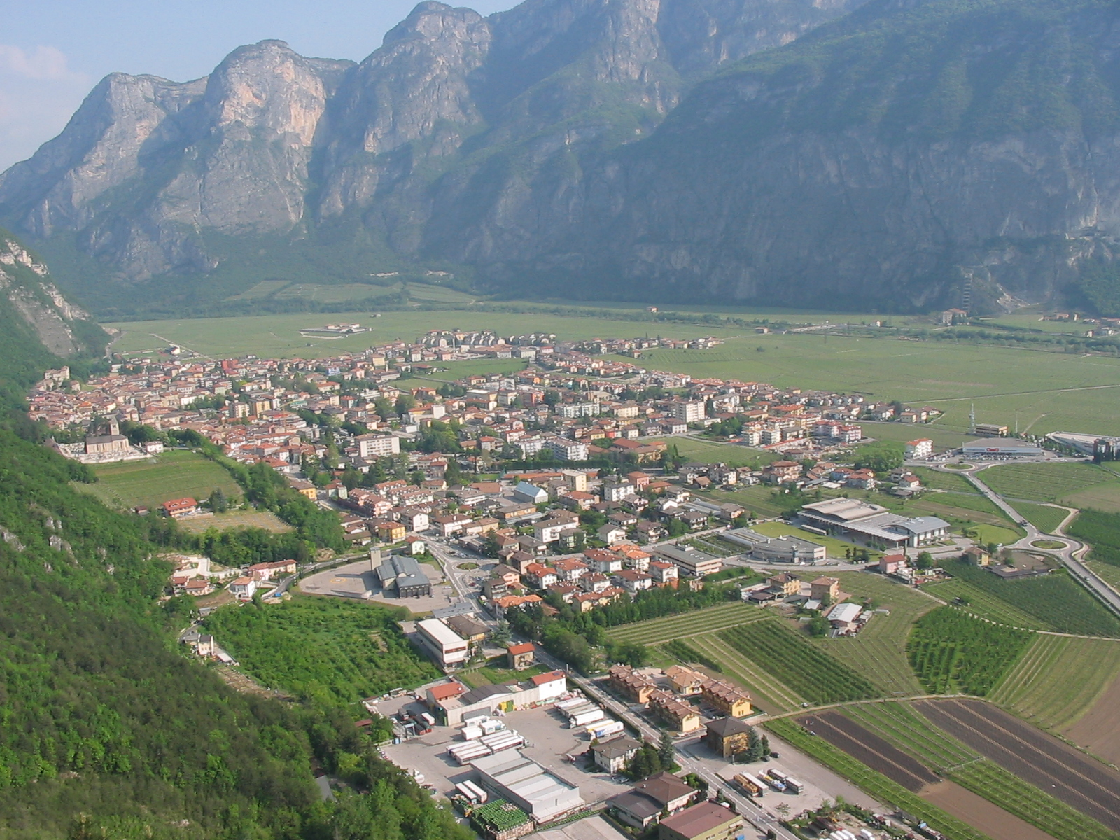 A photo of Mezzolombardo (TN) taken from the "Val dei Colleri"